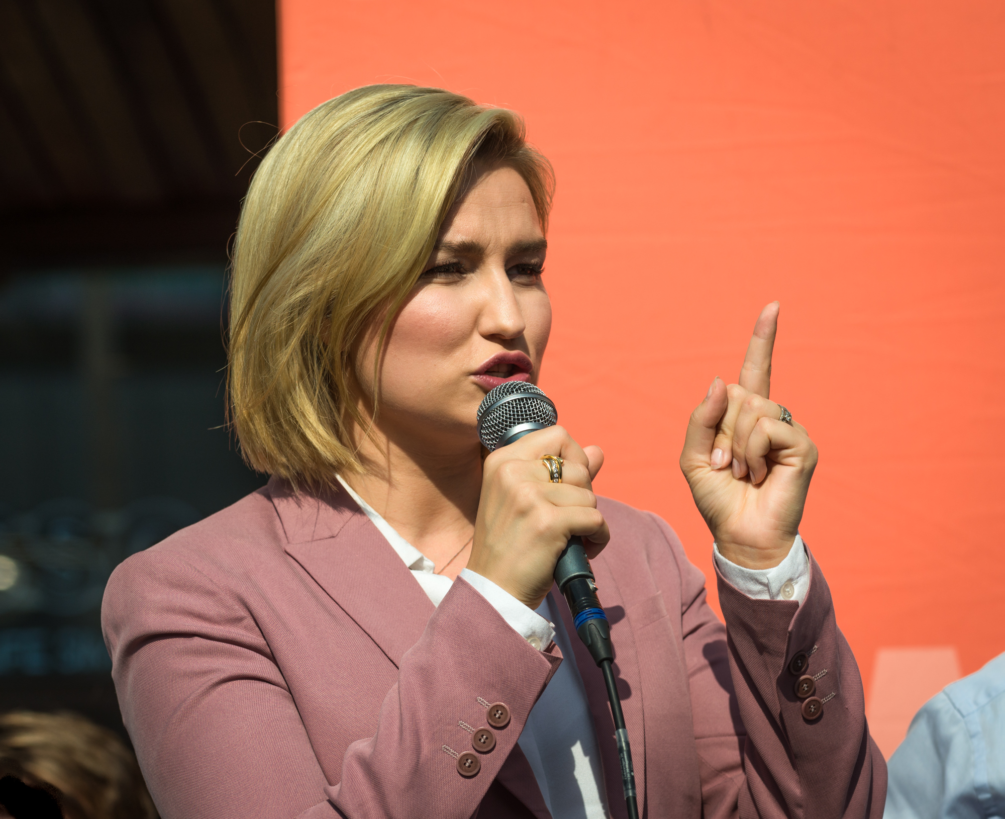 Ebba Busch Thor on Soltorget at Sergel's square in Stockholm the day before the election day, September 8, 2018.